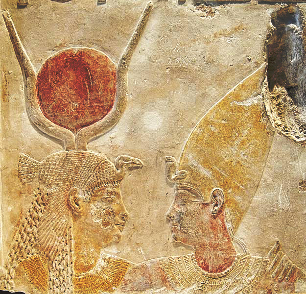 Isis greeting Nectanebo II, fragment of the door of a small temple built at the entry of the alley to the Serapaeum. Painted limestone, ca. 359–341 BC (30th Dynasty). From the Serapaeum at Saqqarah.